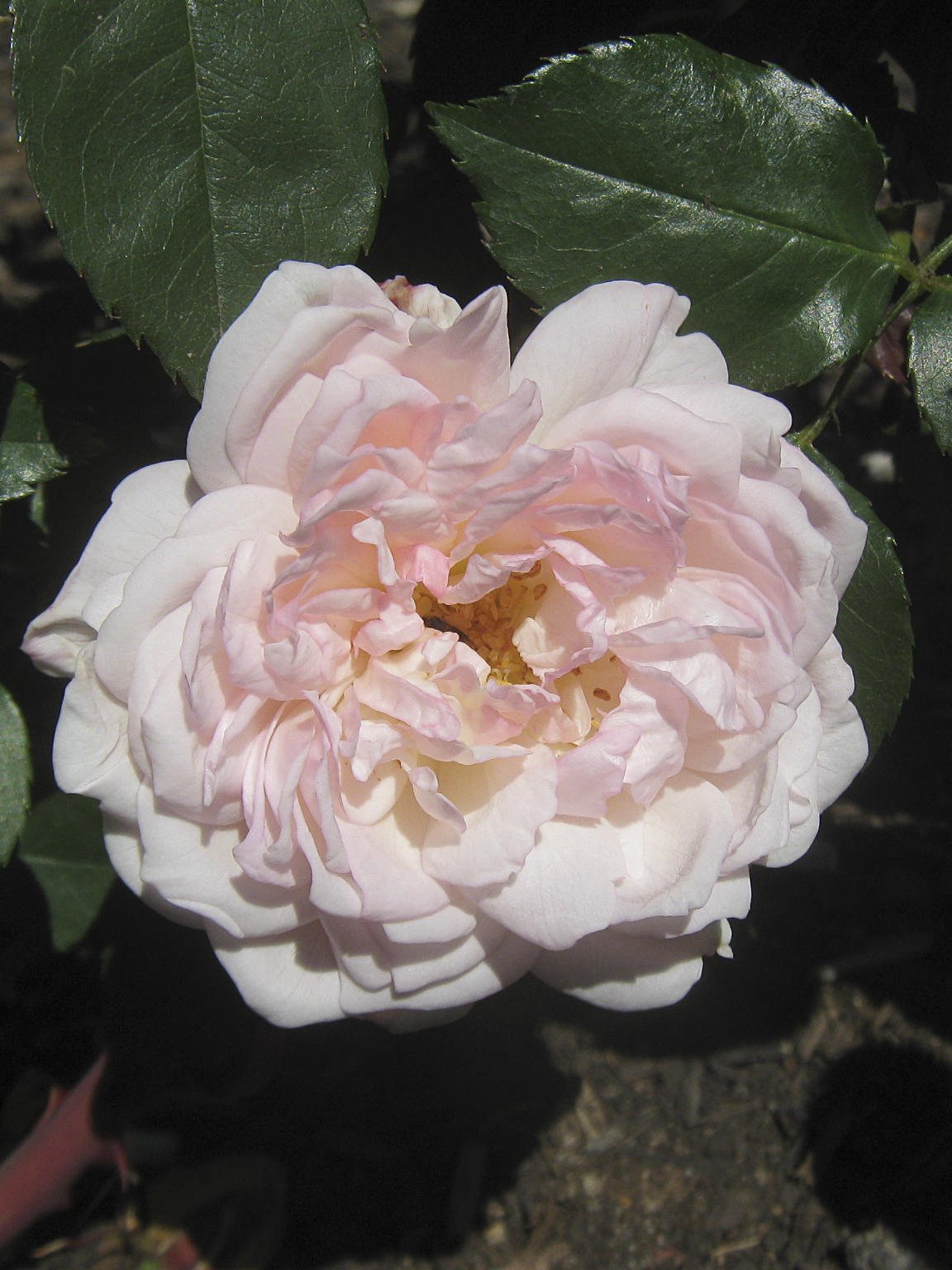 Rose 'Mlle de Sombreuil', Robert 1851 found in South Australia on the Carlsruhe grave of Maria Brühn. Photographed in Nieuwesteeg Heritage Rose Garden, Maddingley Park, Bacchus Marsh, Victoria